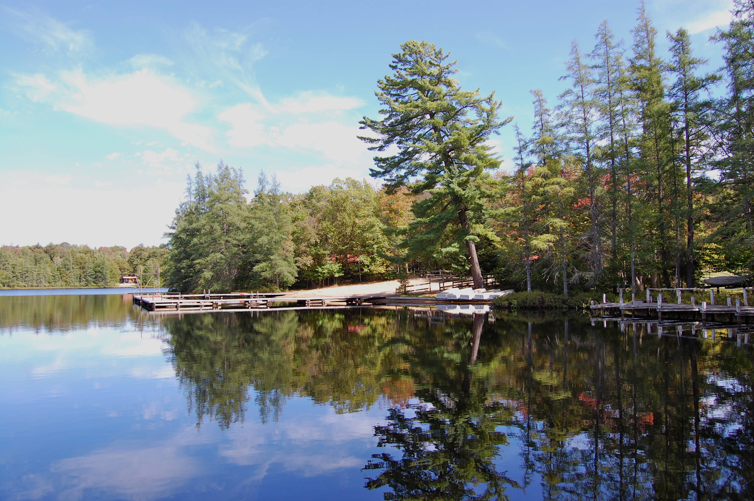 This is a shot of Lake Kan-Ac-To on the property of Adirondack Woodcraft Camps.